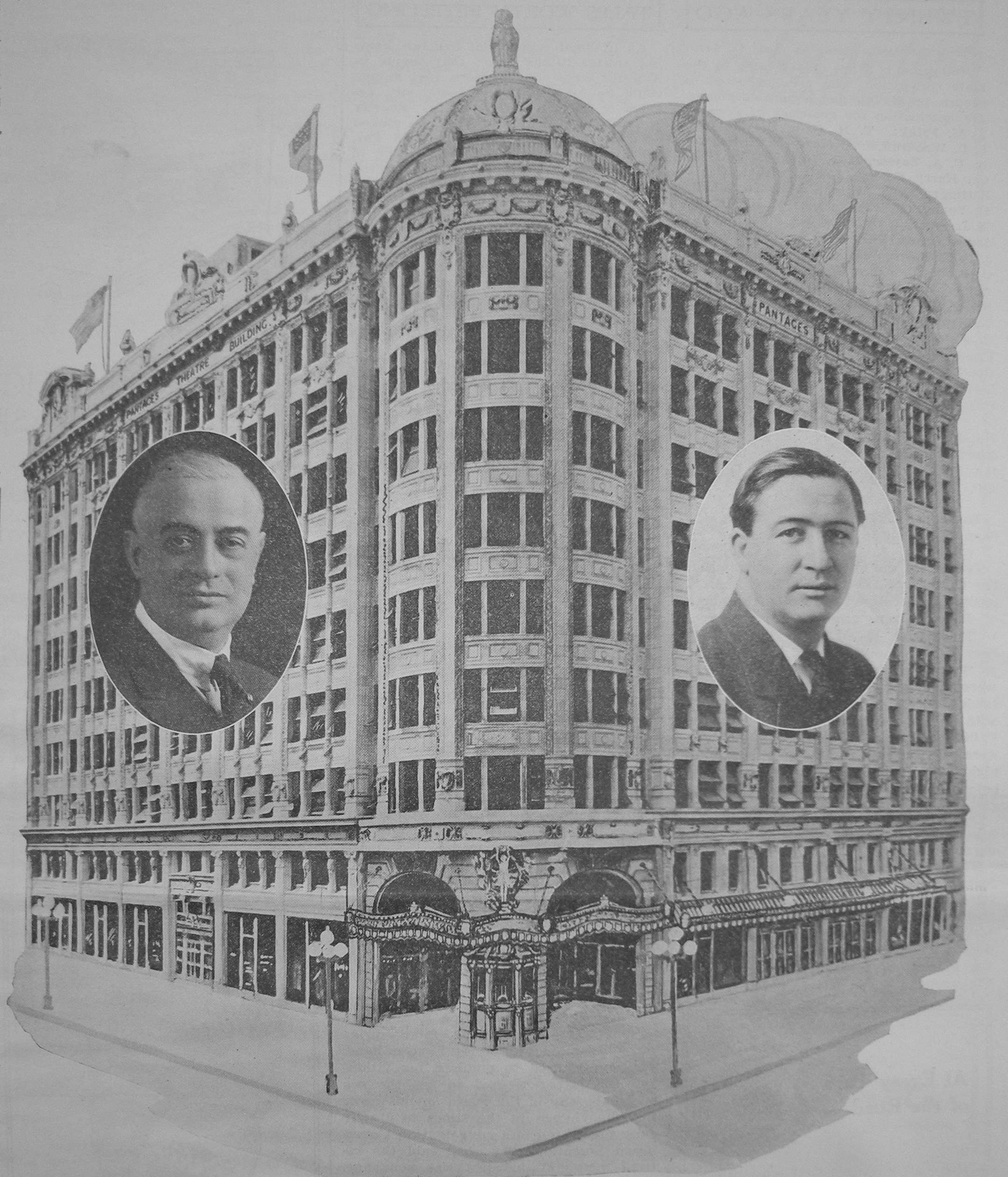 Pantages Theater, Los Angeles, California, at the time of its opening in 1920. Inset photos of Alexander Pantages and Edward G. Milne. Caption in the original: "NEW PANTAGES THEATER, LOS ANGELES "The Newest and Most Beautiful Unit of the Long Chain of Fine Theaters Operated by the Pantages Theater Company Will Be Opened in Los Angeles Next Monday. Inserts, Left, Alexander Pantages, President and General Manager of the Company; Right, Edward G. Milne, Northwest General Manager. This Million Dollar building Was Designed by B. Marcus Priteca of Seattle, Who Was Architect fot the Pantages Theater in This City [Seattle]. Carl Walker Will Be Local Manager of the New Theater, and James Townsend Will Be Stage Manager. The Pantages Theater Company Will Open New Houses in Toronto, Salt Lake, Memphis and Kansas City This Fall."